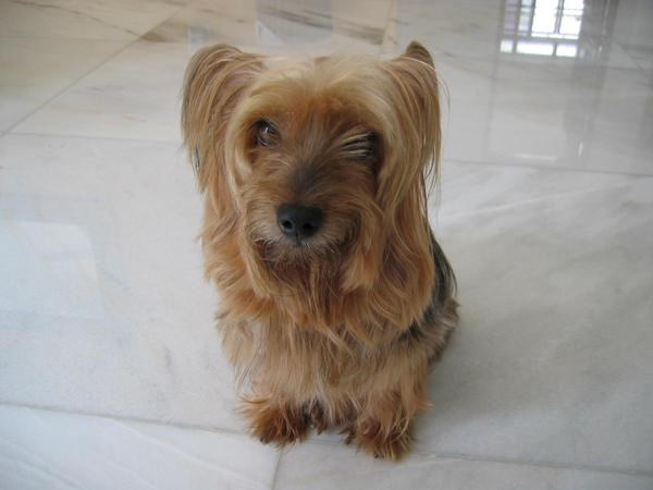 An adult female Australian Silky Terrier. Taken in November 2005 and uploaded by the photographer. This photo was taken right after it ate 6 hot dogs and slept for 3 hours.